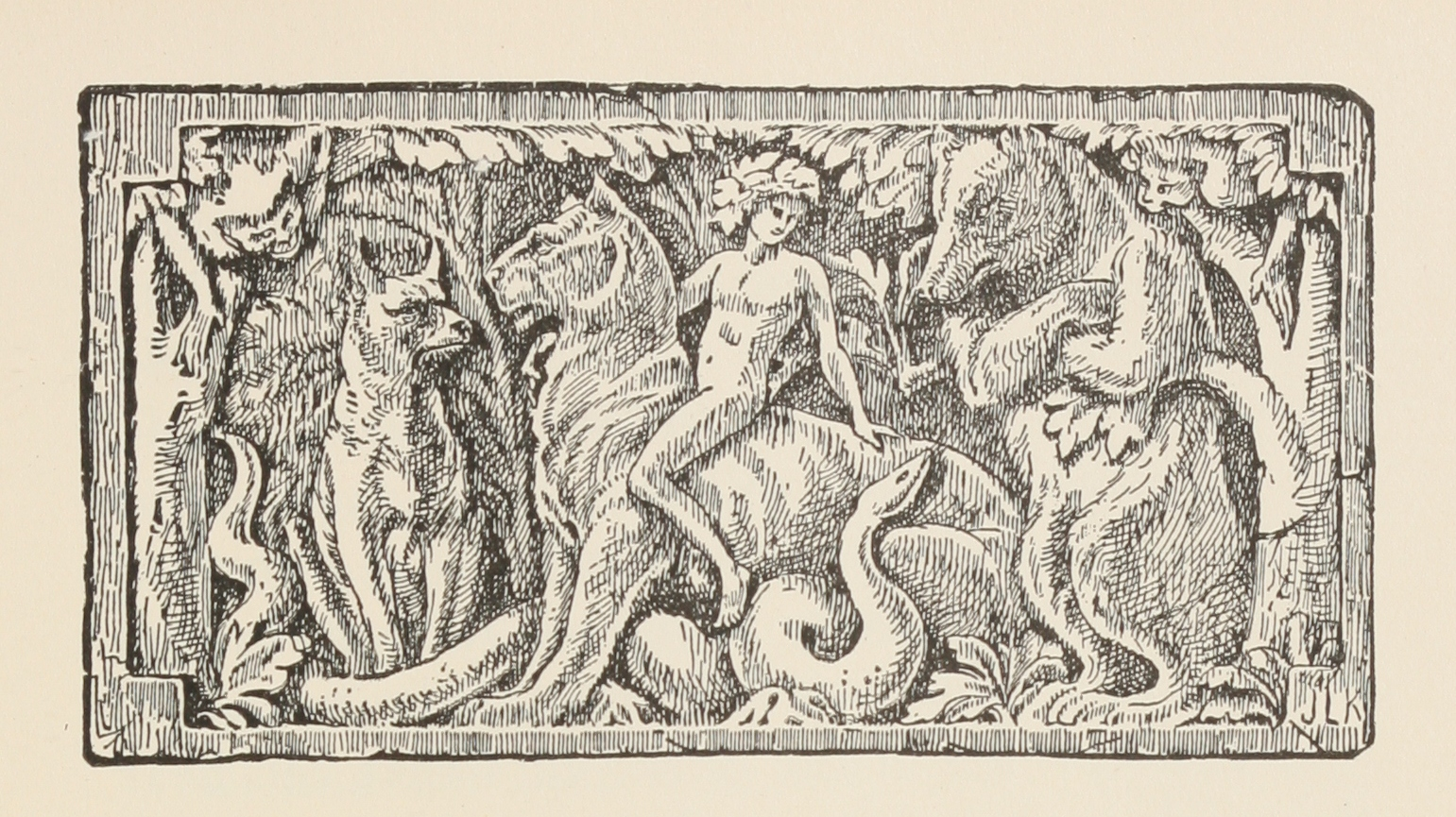 Title illustration of the chapter "Kaa's Hunting".